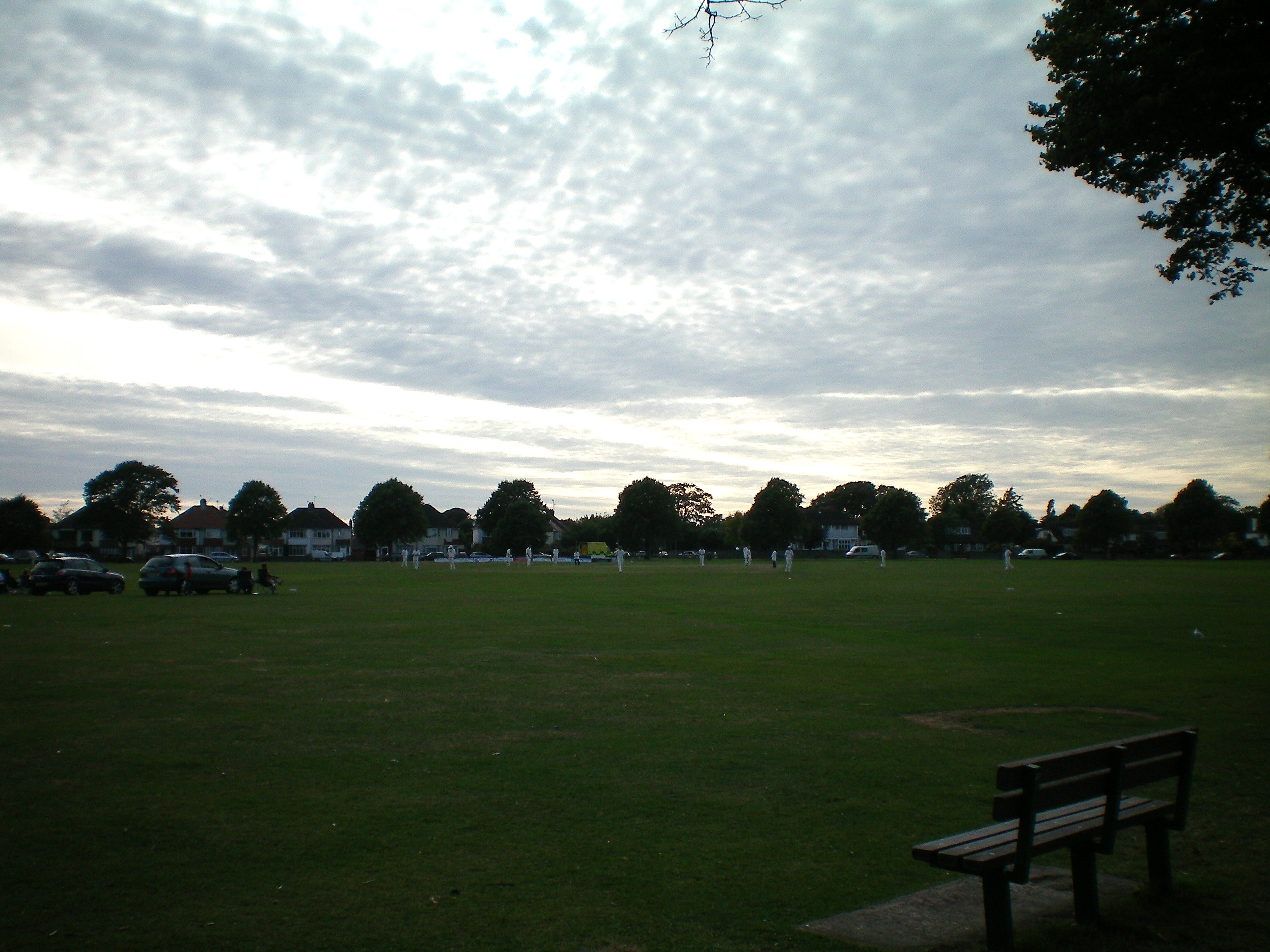 Broadwater Green, Worthing, West Sussex, England.